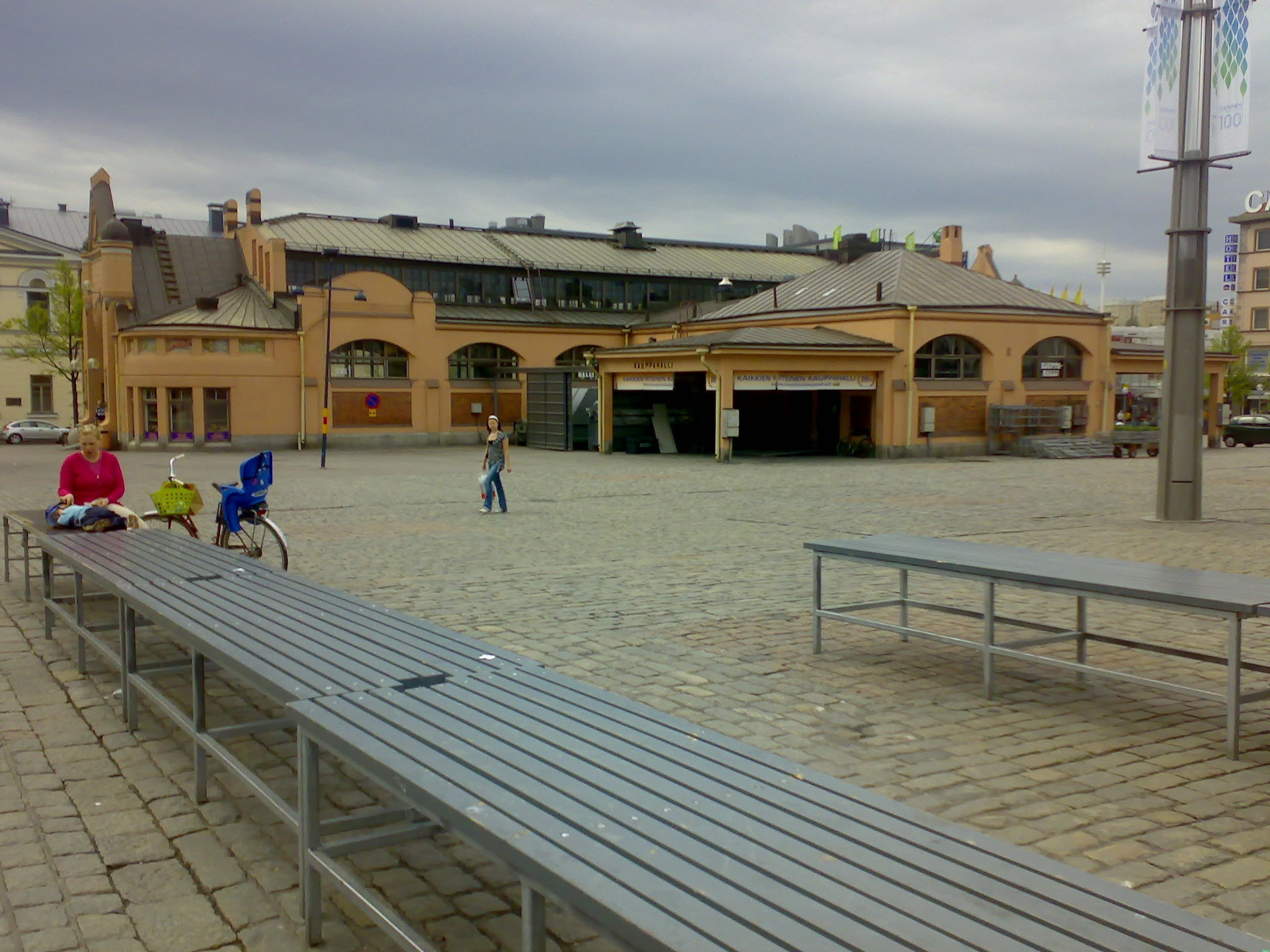 Kuopio market hall